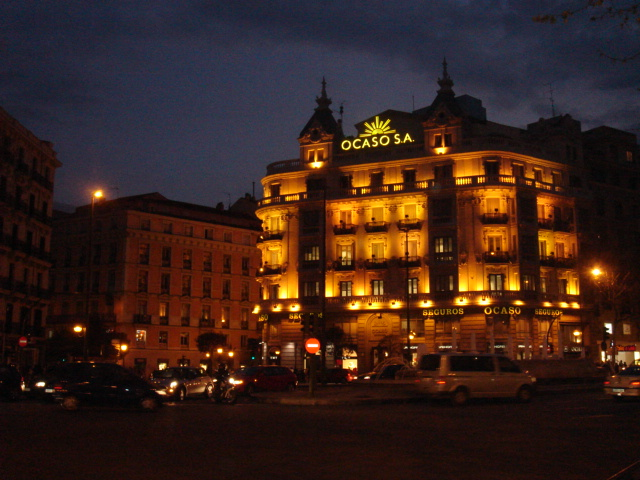 Own work